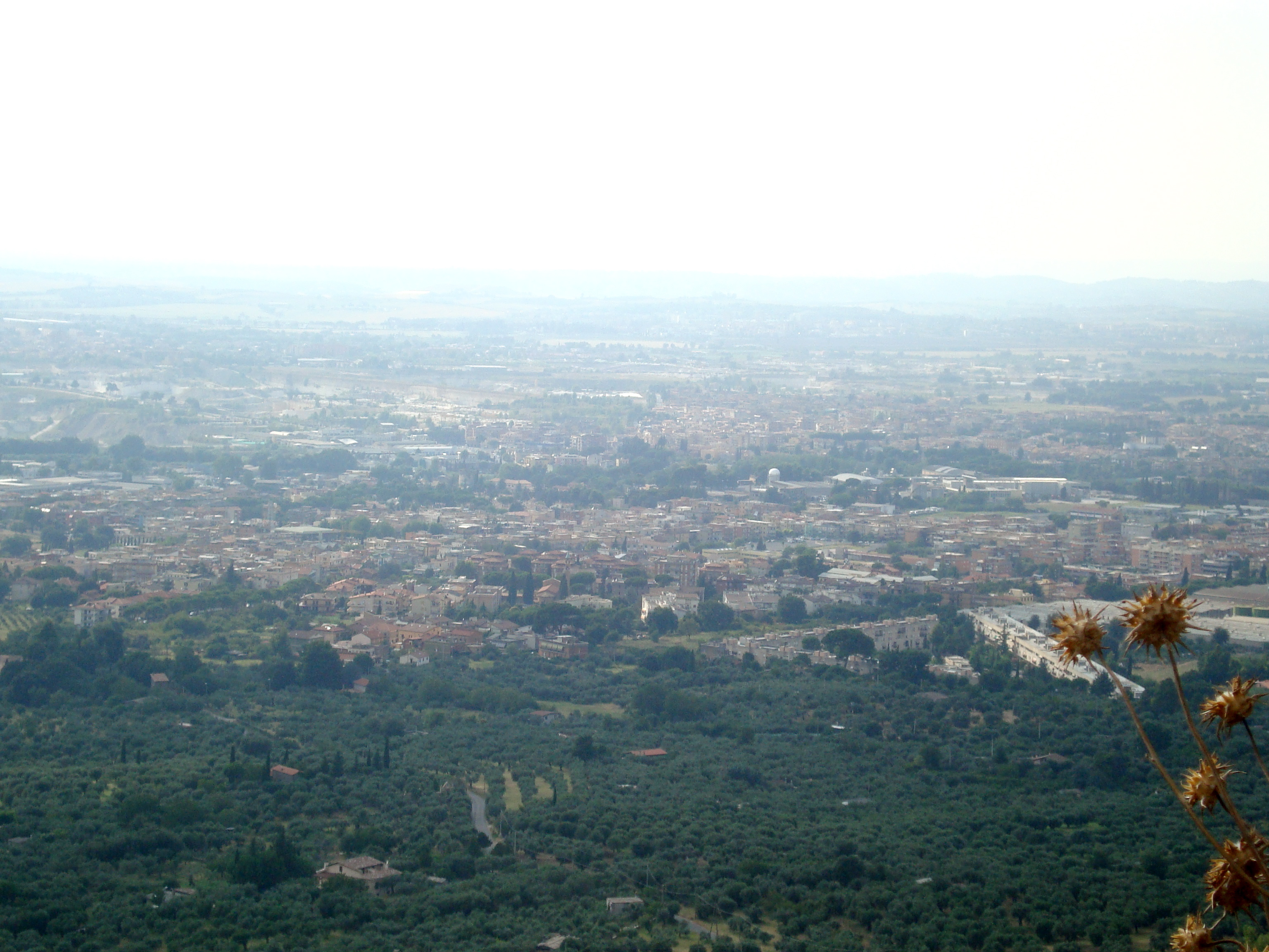 View of the frazione villa Adriana from Tivoli